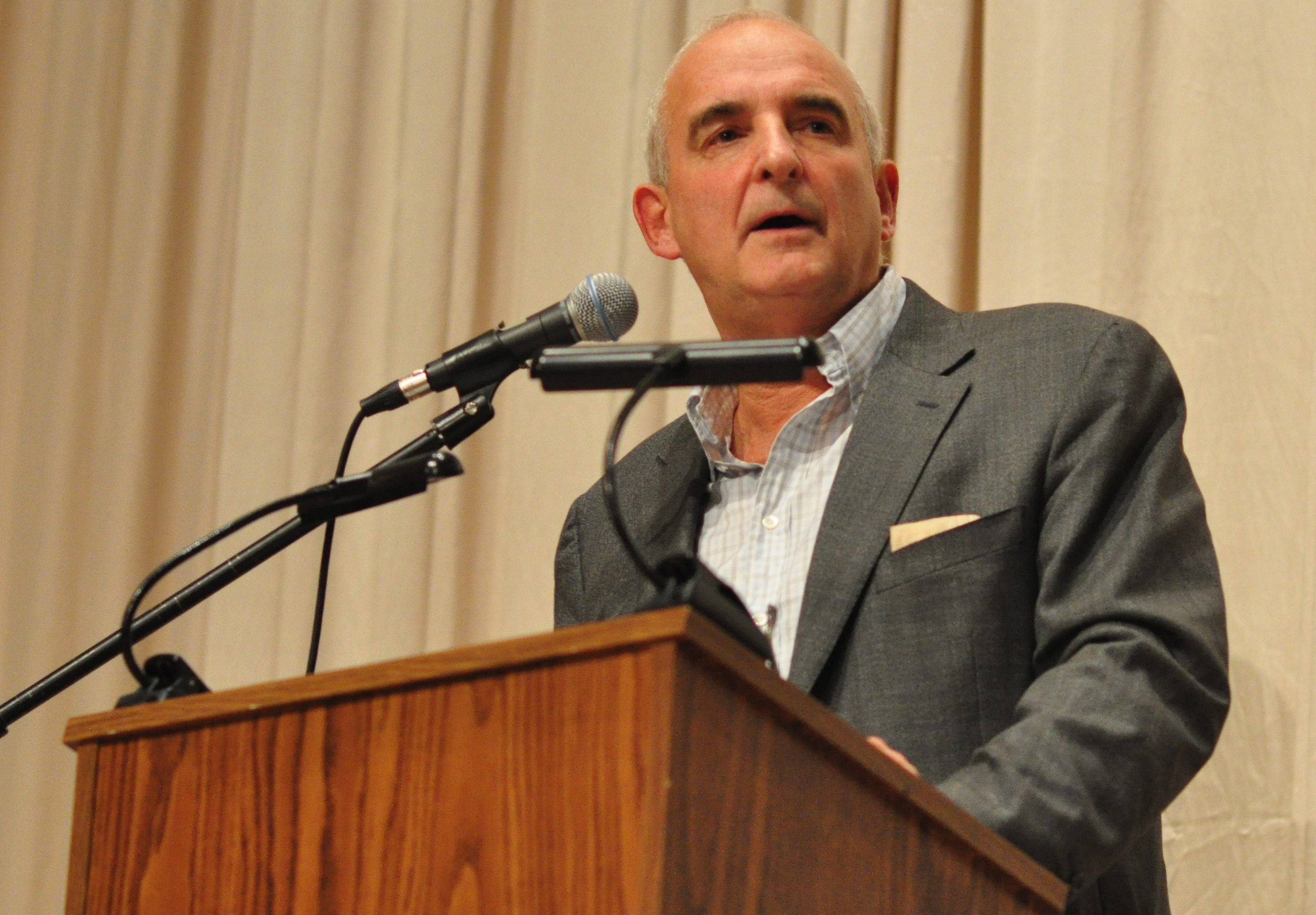 New York Times columnist Roger Cohen giving a talk at the Temple De Hirsch Sinai, Seattle, Washington sponsored by J Street.